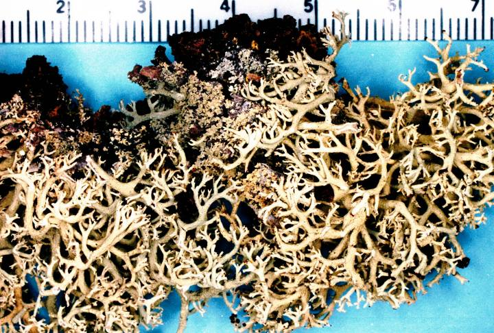 Cladonia leporina Fr., 1831 (photograph of a herbarium specimen) Growing on soil at Bates Hill Plantation, Yauhannah Station, Georgetown County, South Carolina, USA; collected by Roger D. Redden, identified by Elmer G. Worthley (No. L-56, 12 Dec 1982); specimen is now in the Lichen Herbarium of the New York Botanical Garden.